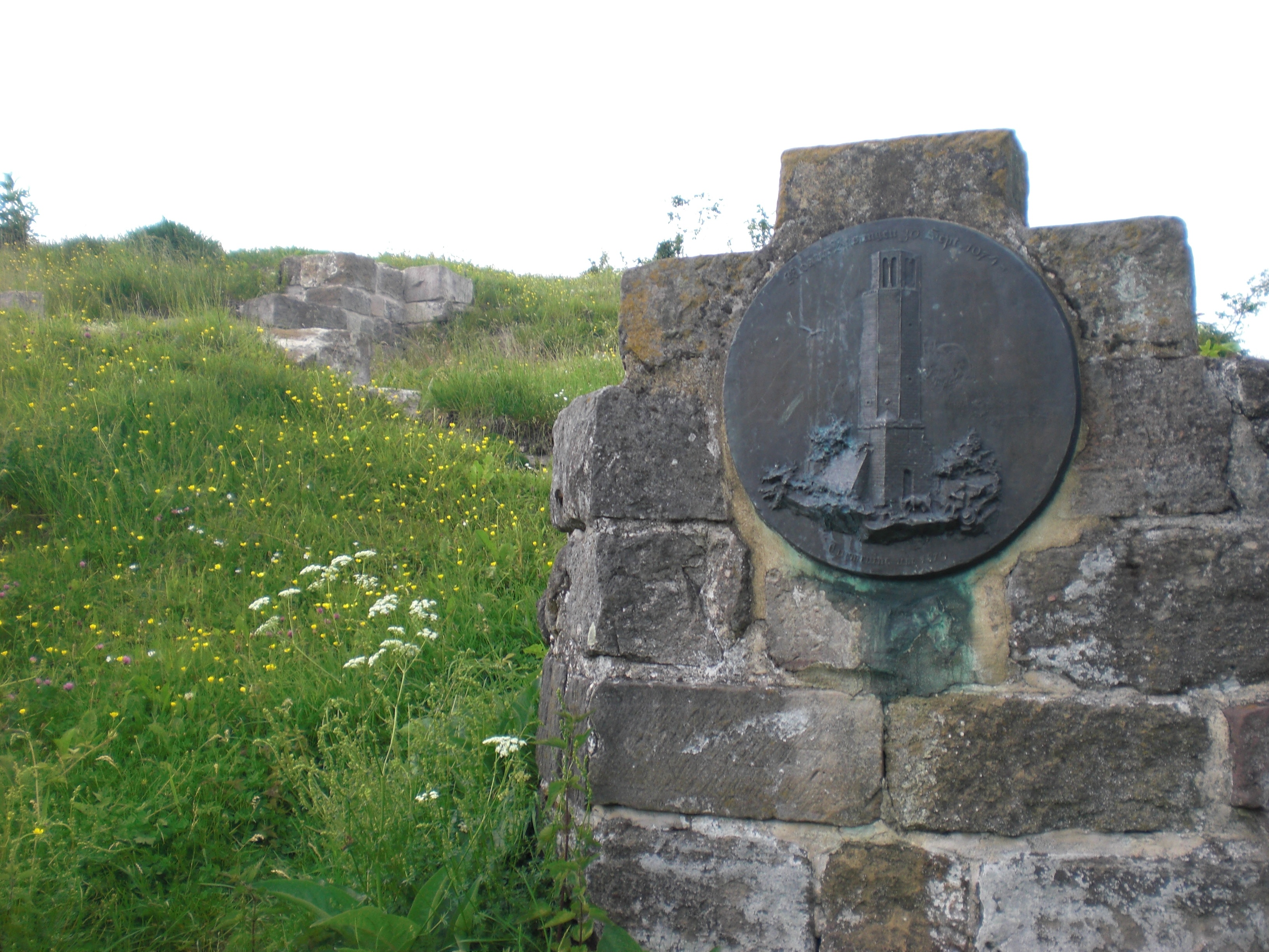 Hasungen